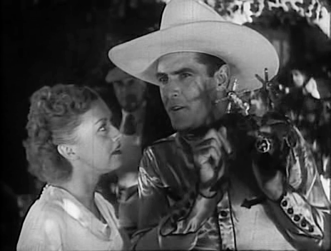 Screenshot from In Old Santa Fe (1934) with Ken Maynard and Evalyn Knapp